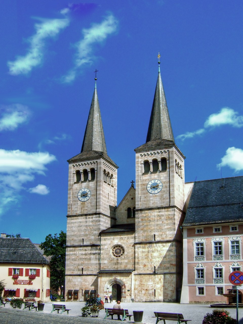 Berchtesgaden, western facade of the Abbey Church of St Peter and John the Baptist.